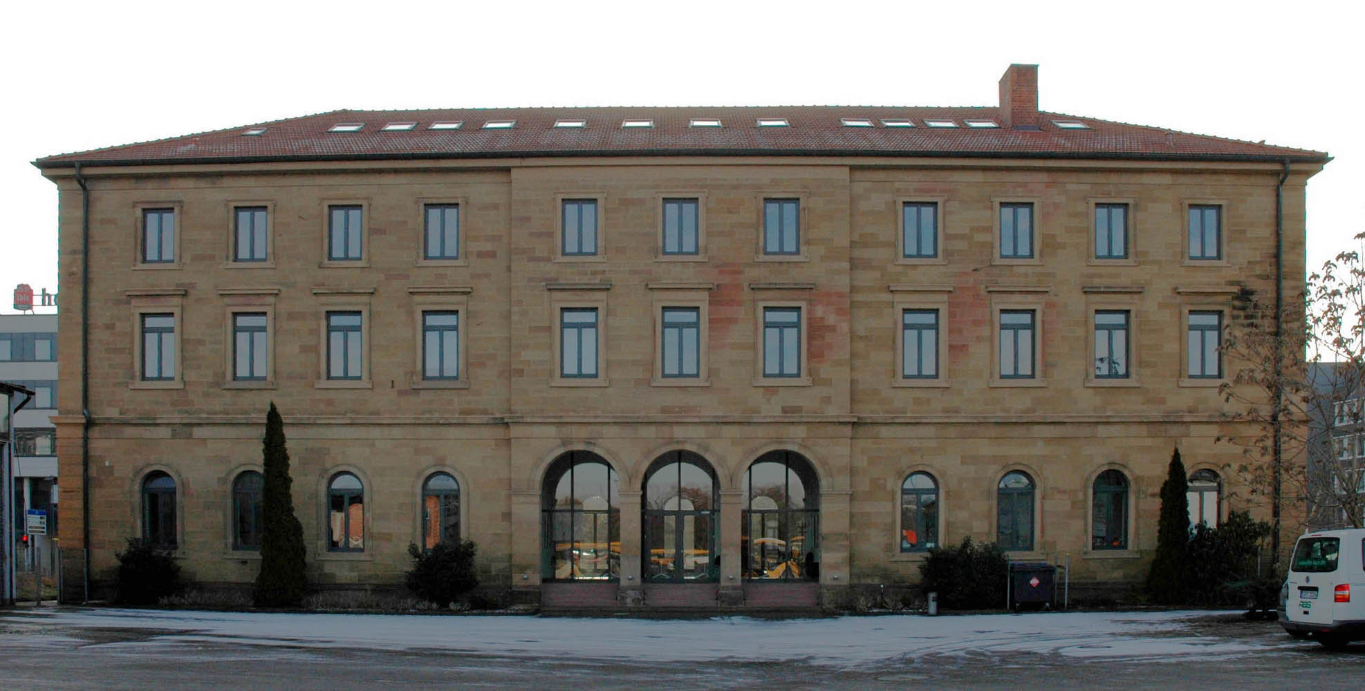 Heilbronn's first train station building.